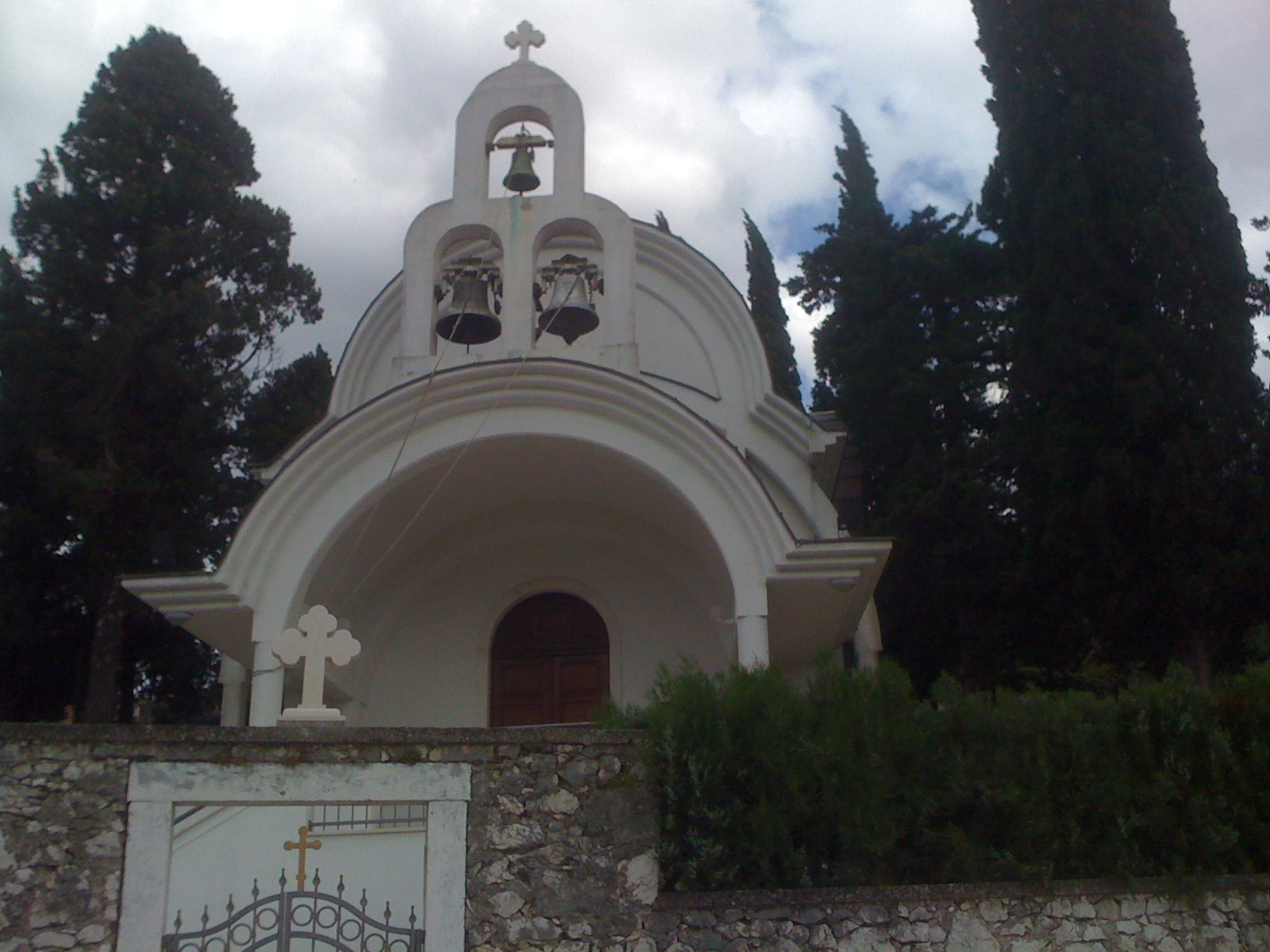 St. George orthodox church in Metković